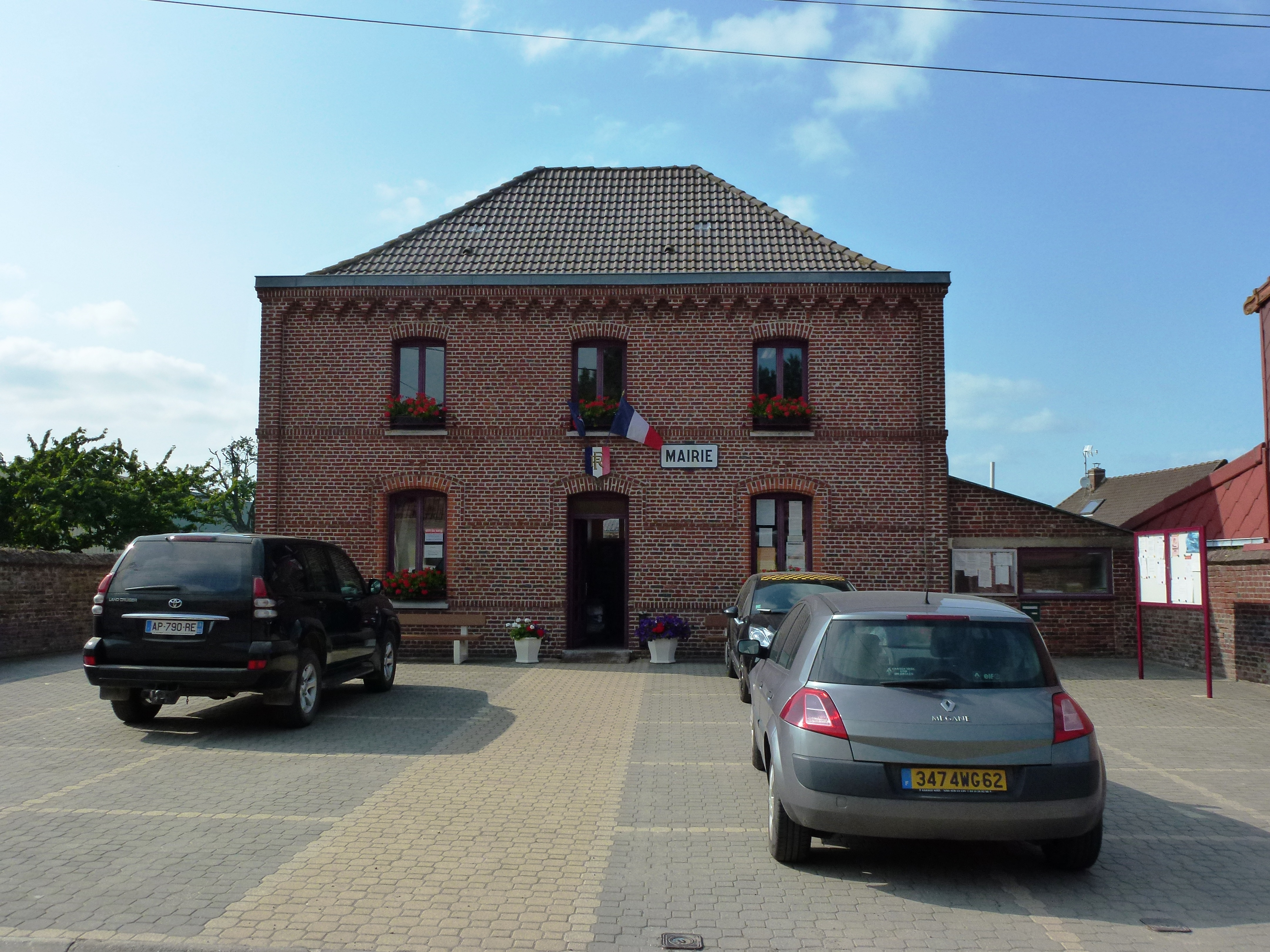 Saint-Hilaire-Cottes (Pas-de-Calais, Fr) mairie